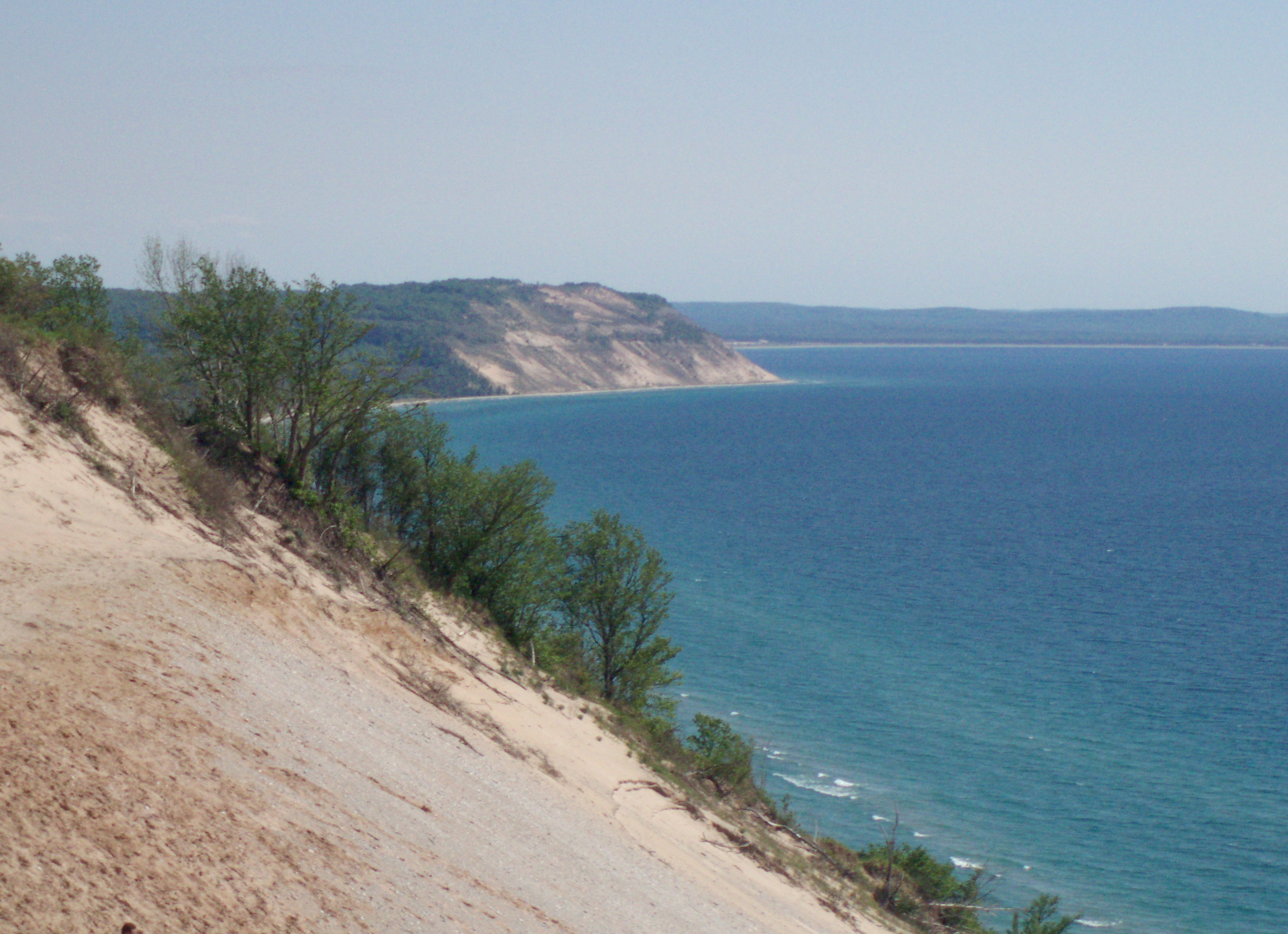 Good Harbor Bay, Sleeping Bear Dunes